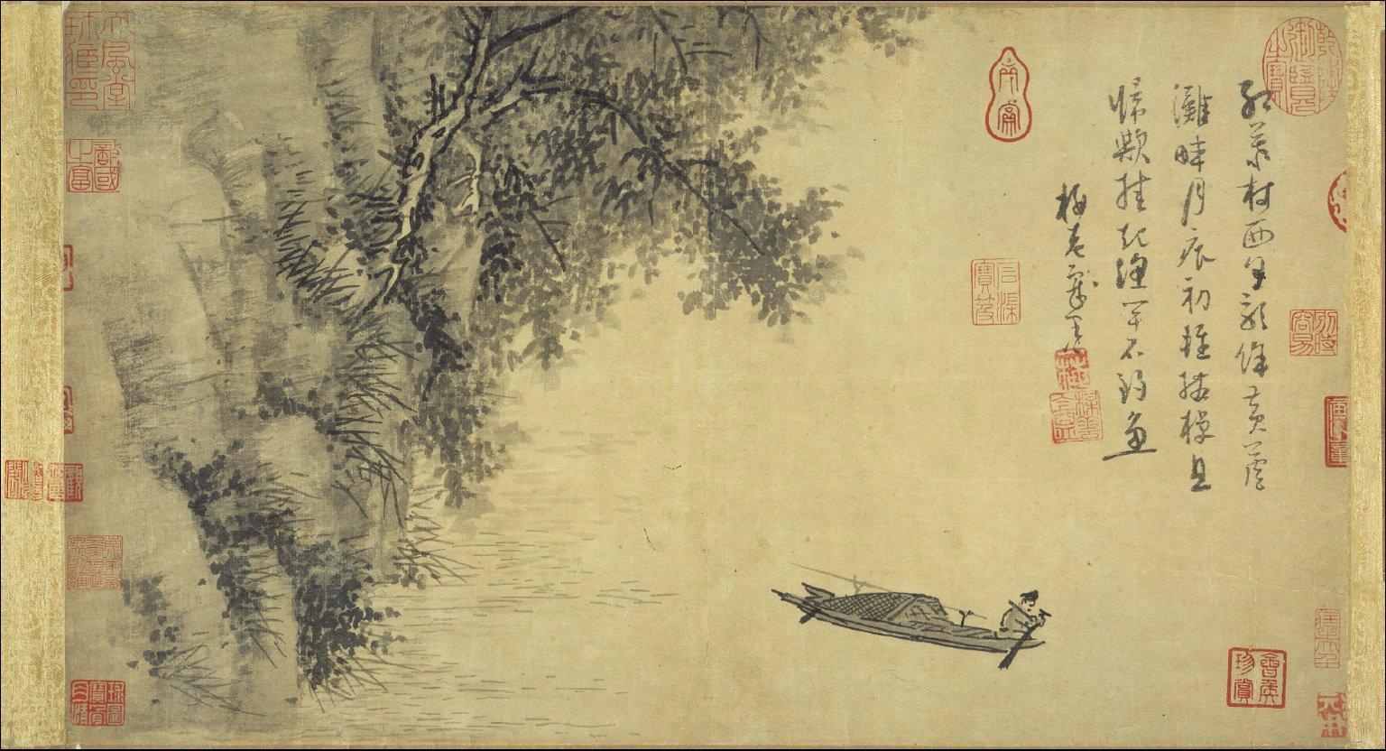 Wu_Zhen._Fisherman._ca.1350._Metropolitan_Museum_N-Y